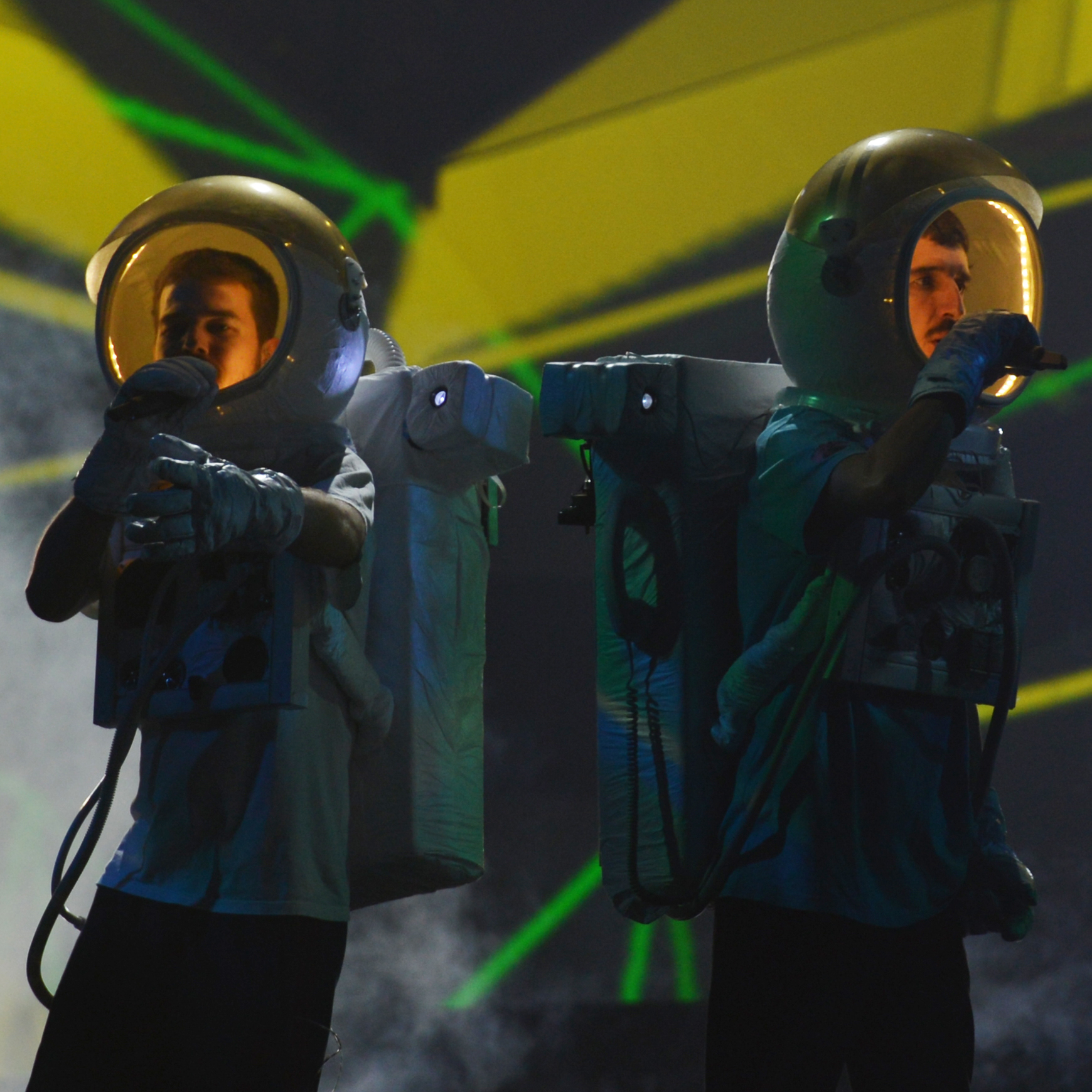 Who See representing Montenegro with the song "Igranka" (Игранка) during the first dress rehearsal of the first semi final of the Eurovision Song Contest 2013 in Malmö. (Help translate this text)